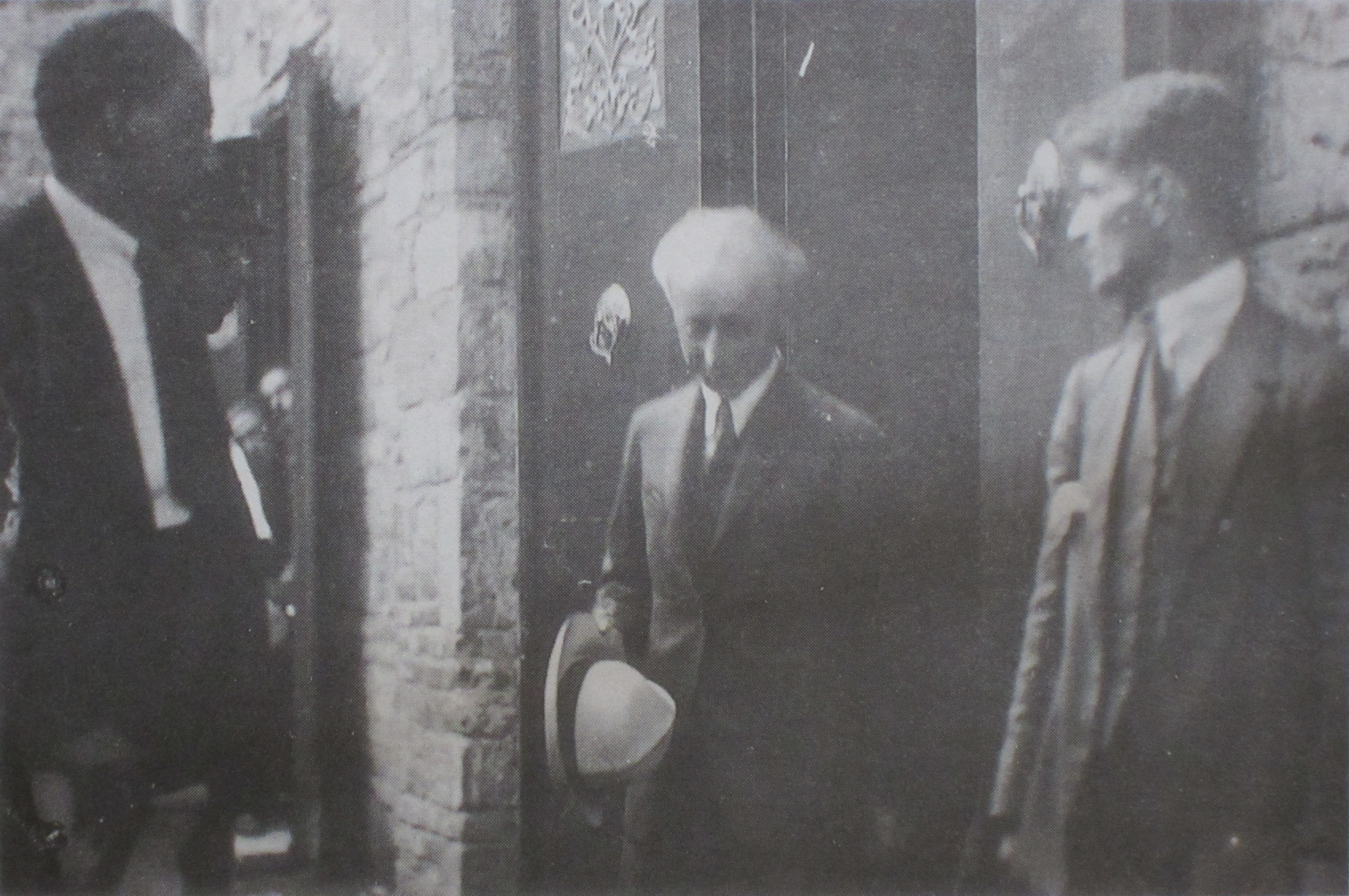 Refet Pasha leaving the Independence Tribunal in Izmir, 1926.